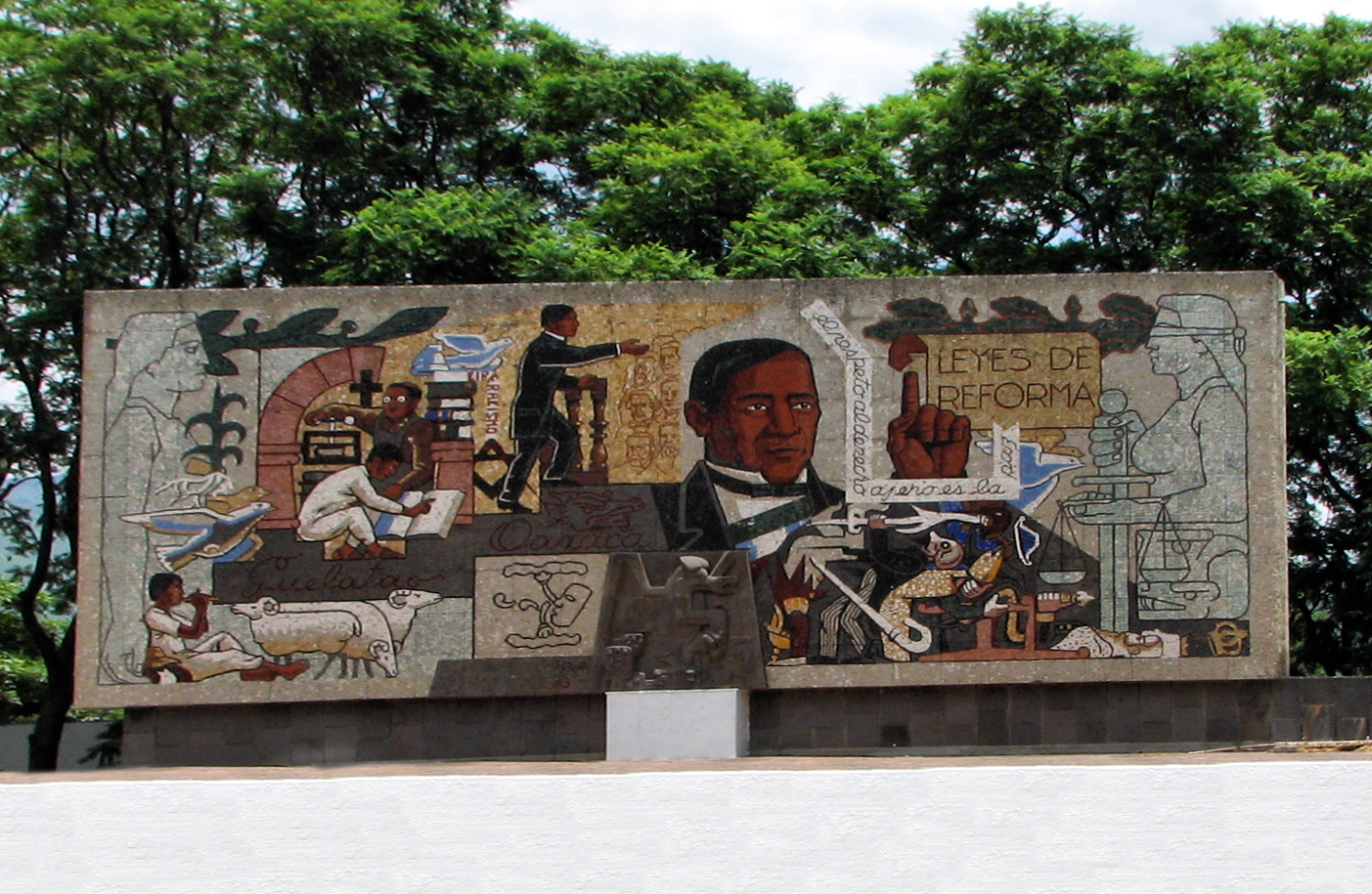 Mosaic of Benito Juárez in Oaxaca de Juárez, Oaxaca, Mexico.